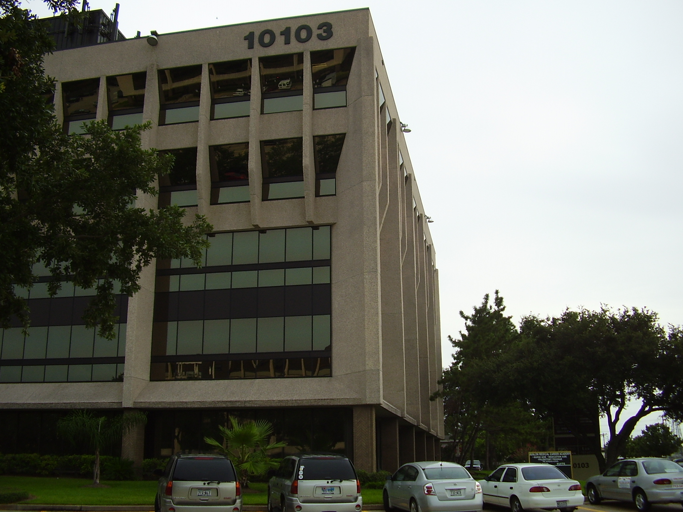 Brays Oaks Tower - includes the Brays Oaks Management District offices and the Houston Public Library Frank HPL Express